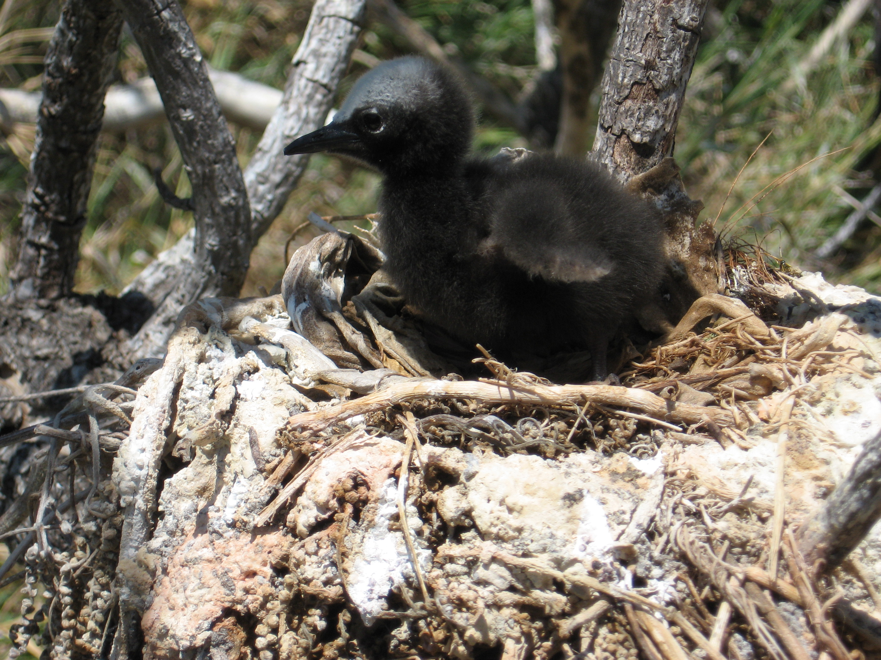 Kiribati